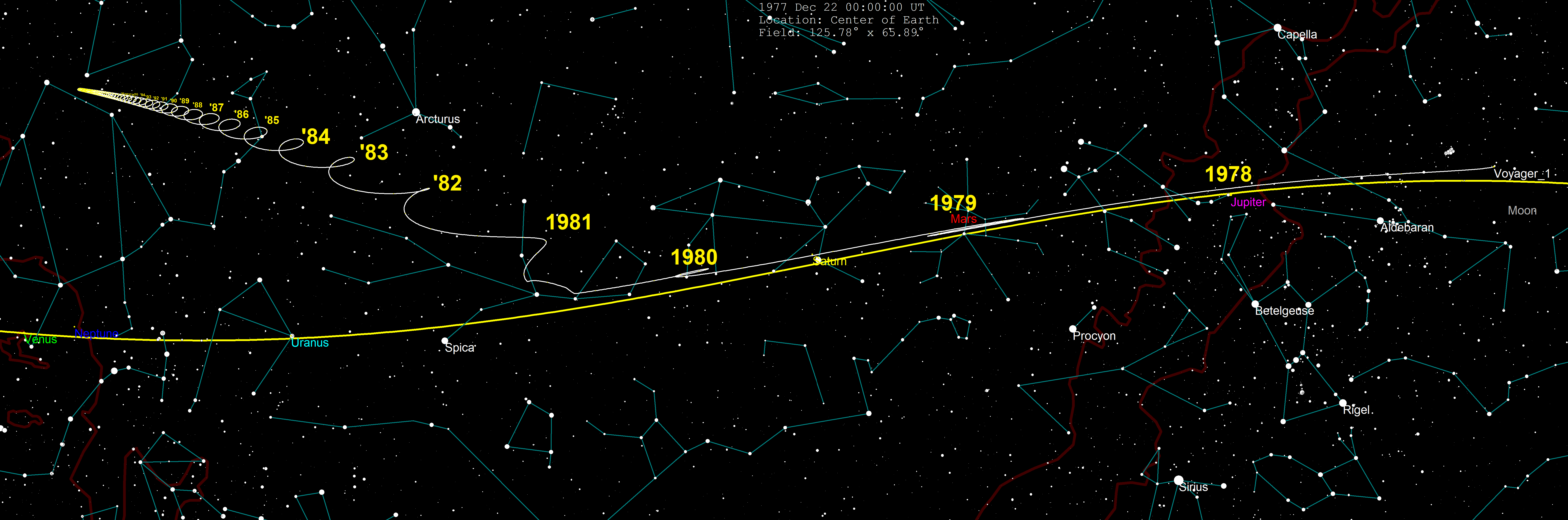 Voyager 1 trajectory in the sky from earth from 1977-2030, taken from ephemeris export